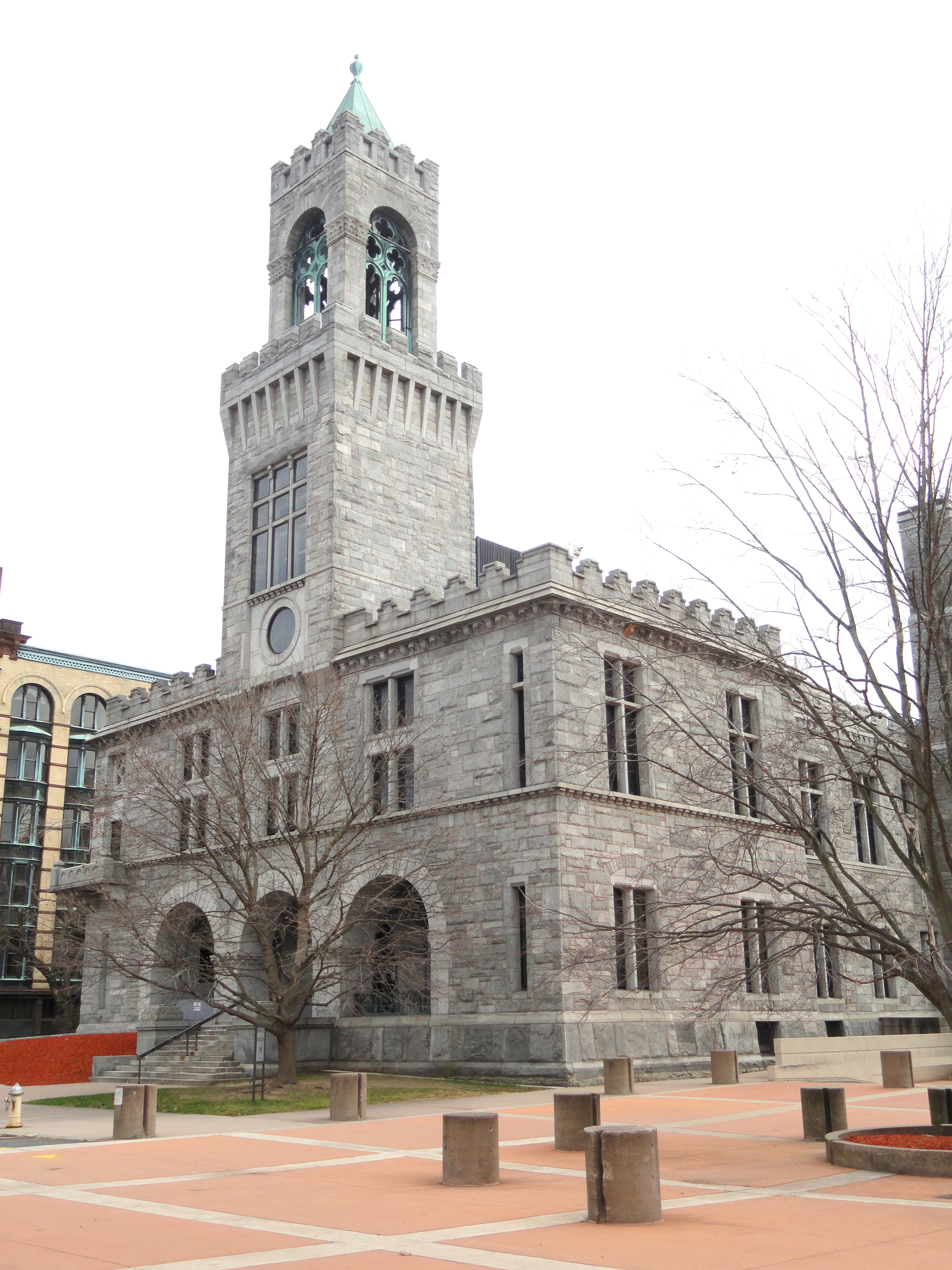 Hampden County Courthouse, Elm Street, Springfield, Massachusetts, USA. Designed by architect Henry Hobson Richardson; dedicated 1874.